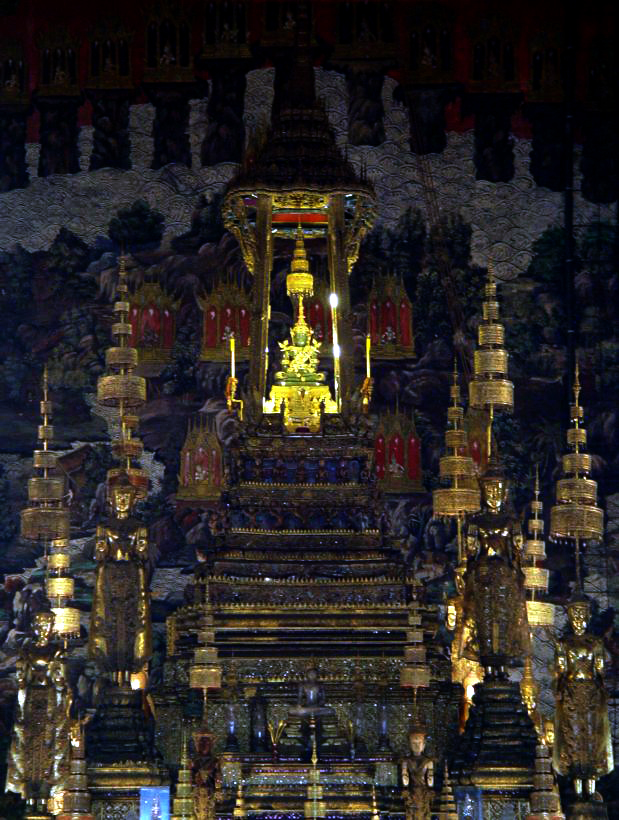 Emerald Buddha, Grand Palace, Bangkok, Thailand. I have taken this picture myself with my digital camera Sony DSC-707 (see EXIF record) in June 2004.